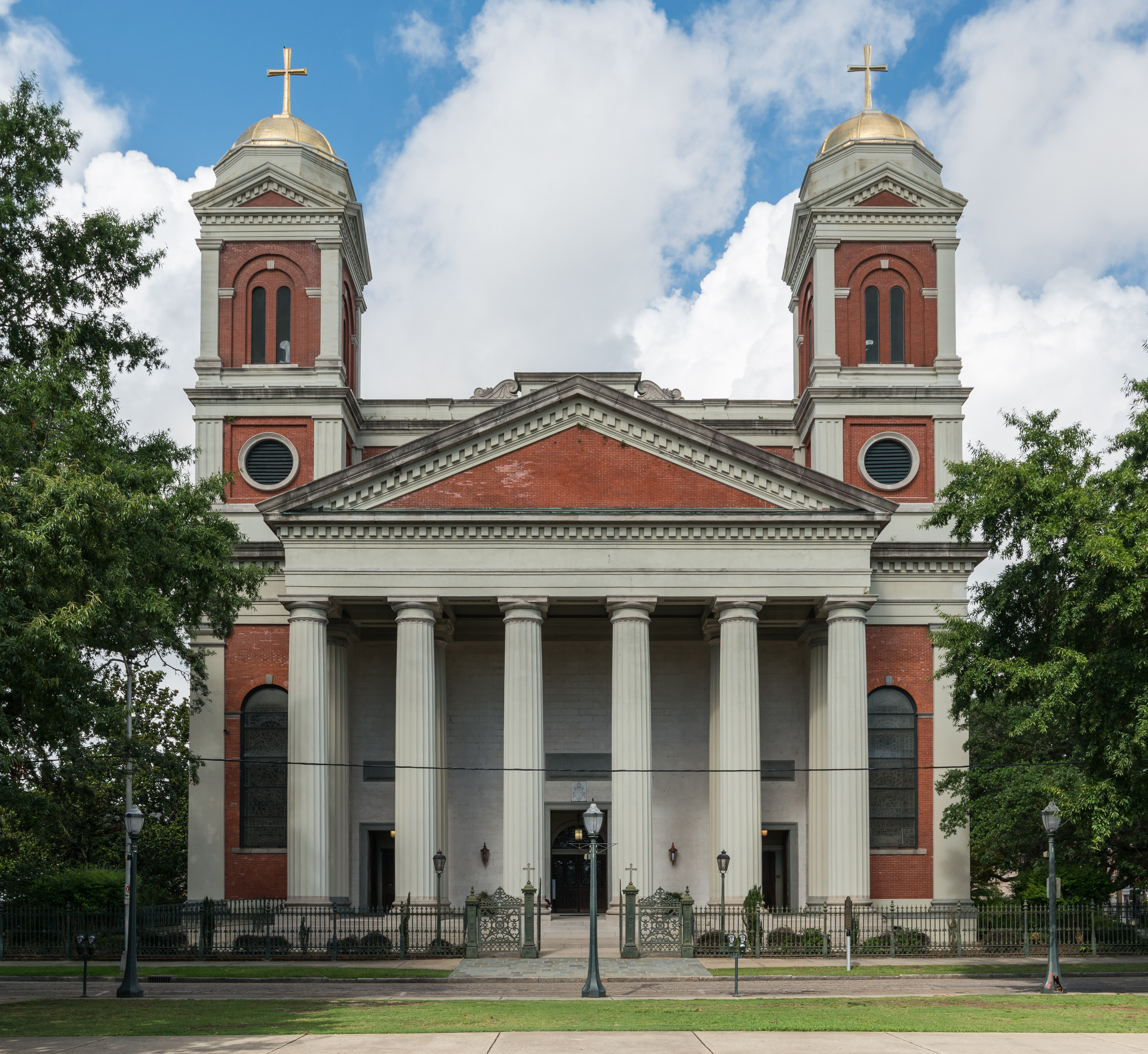 An east view of Cathedral Basilica of the Immaculate Conception, Mobile, Alabama